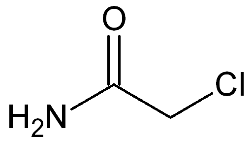 Chlooraceetamide